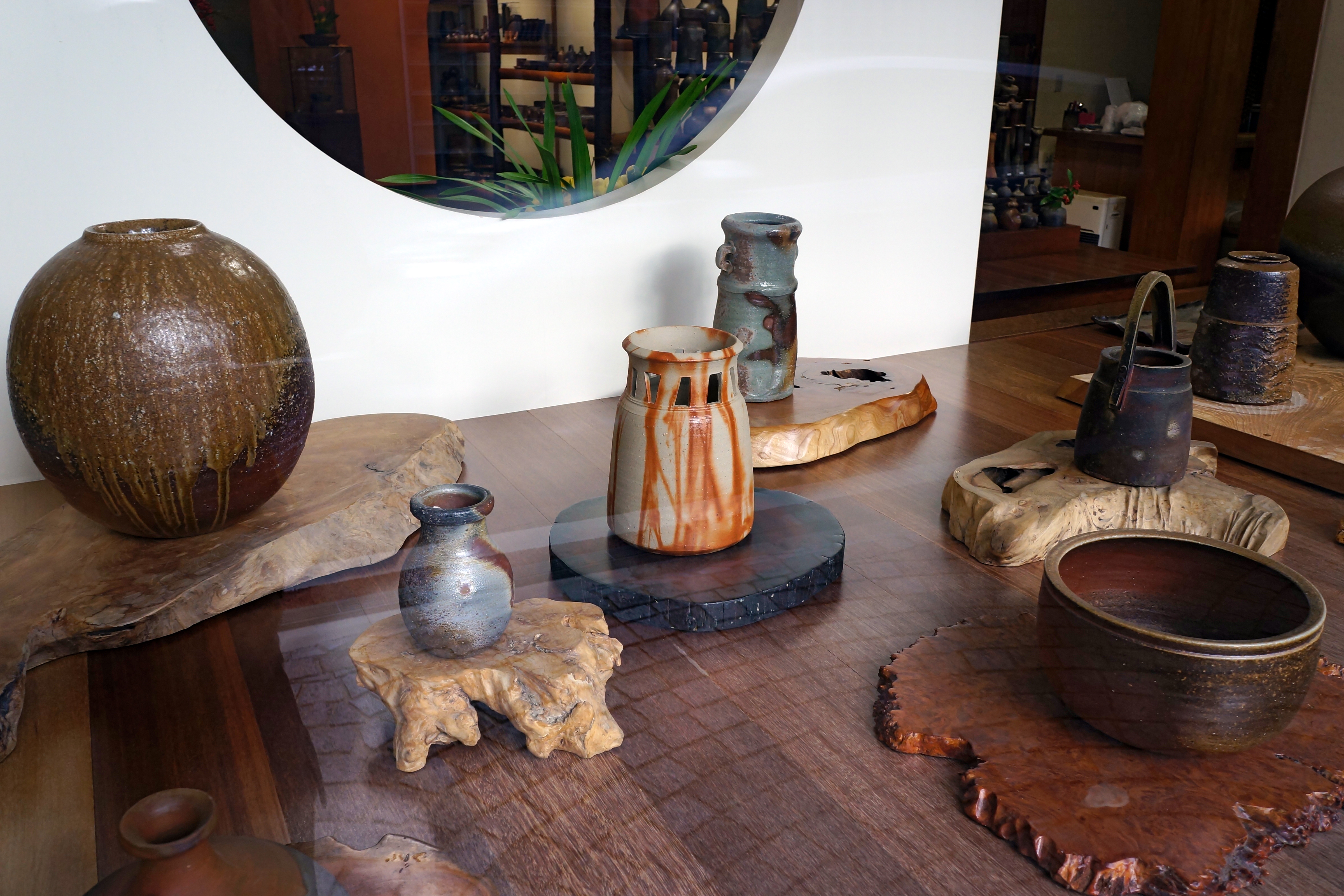 At Imbe, Bizen, Okayama prefecture, Japan